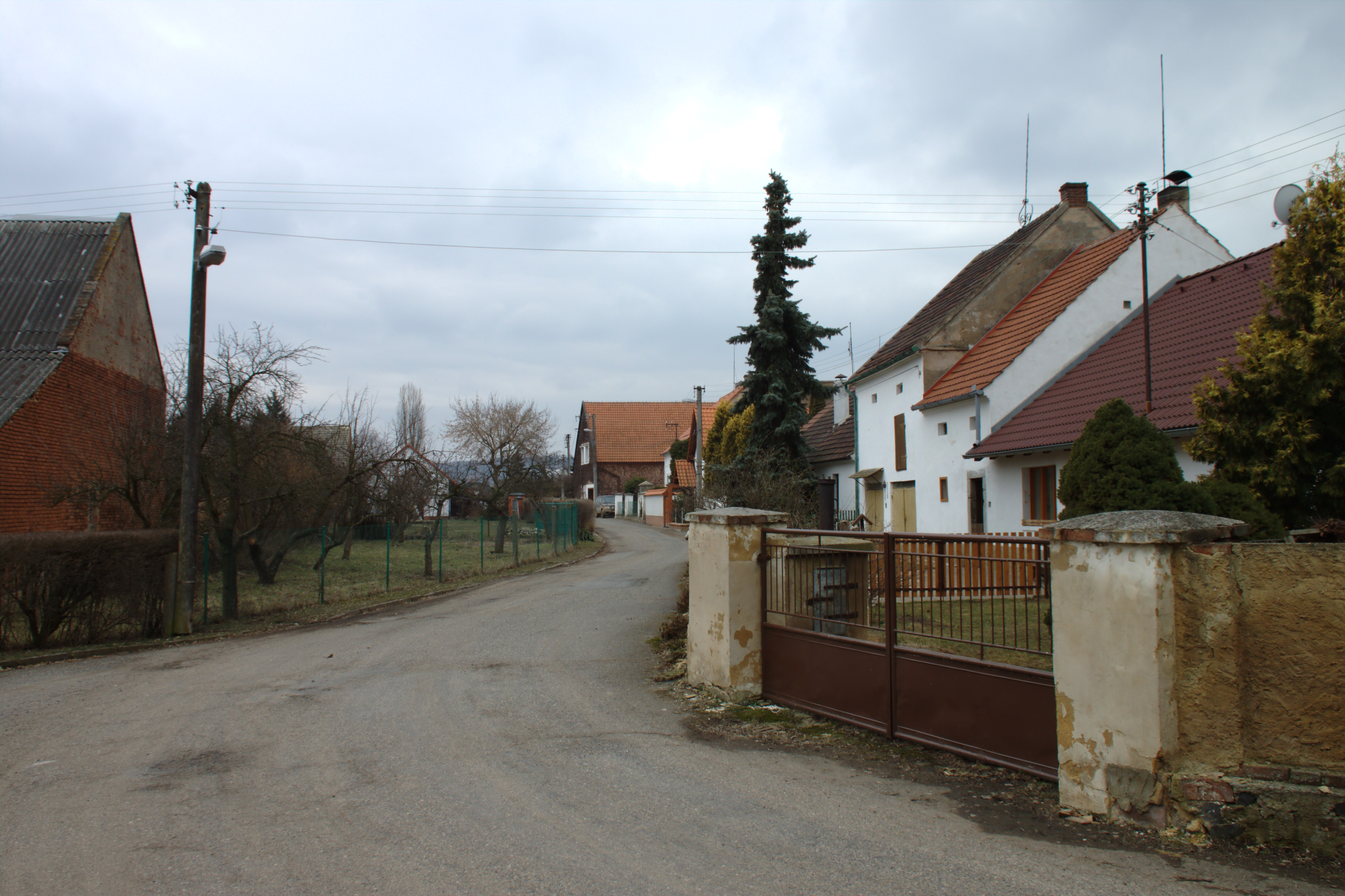 Small village of Nový Dvůr between Šanov and Řeřichy, Central Bohemian Region, CZ